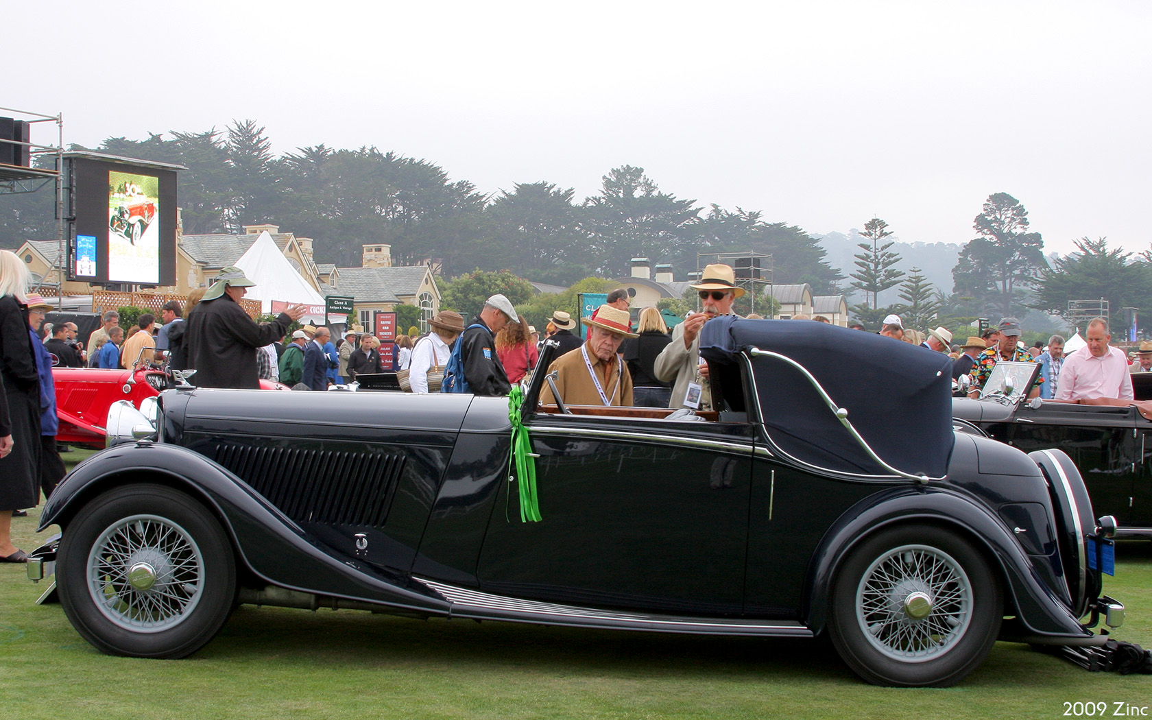 Pebble Beach Concours dElegance, Aug 16, 2009